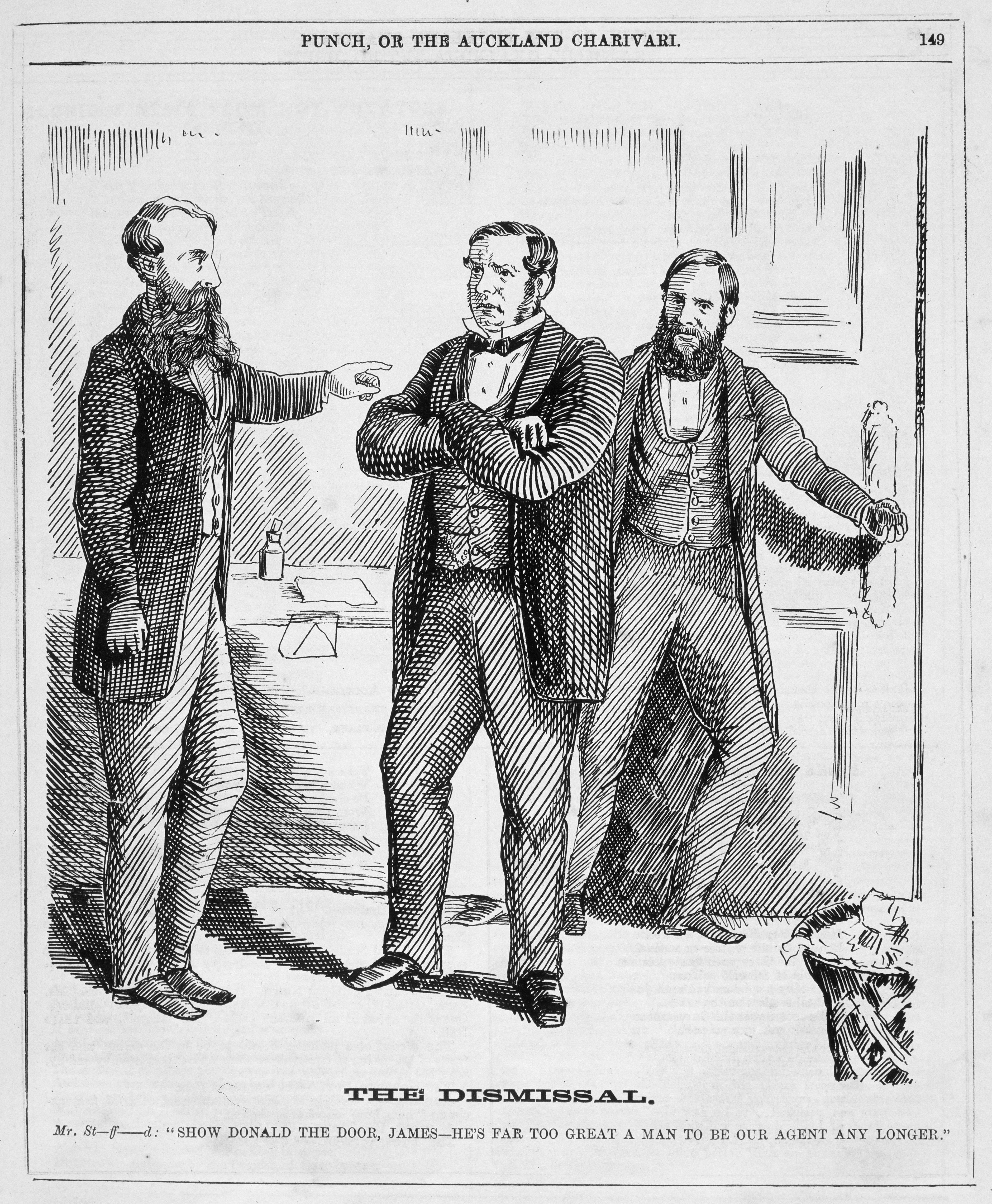 Shows Stafford asking a man (James Paterson? or James Richmond?) to show another man (Donald McLean?) to leave the room.